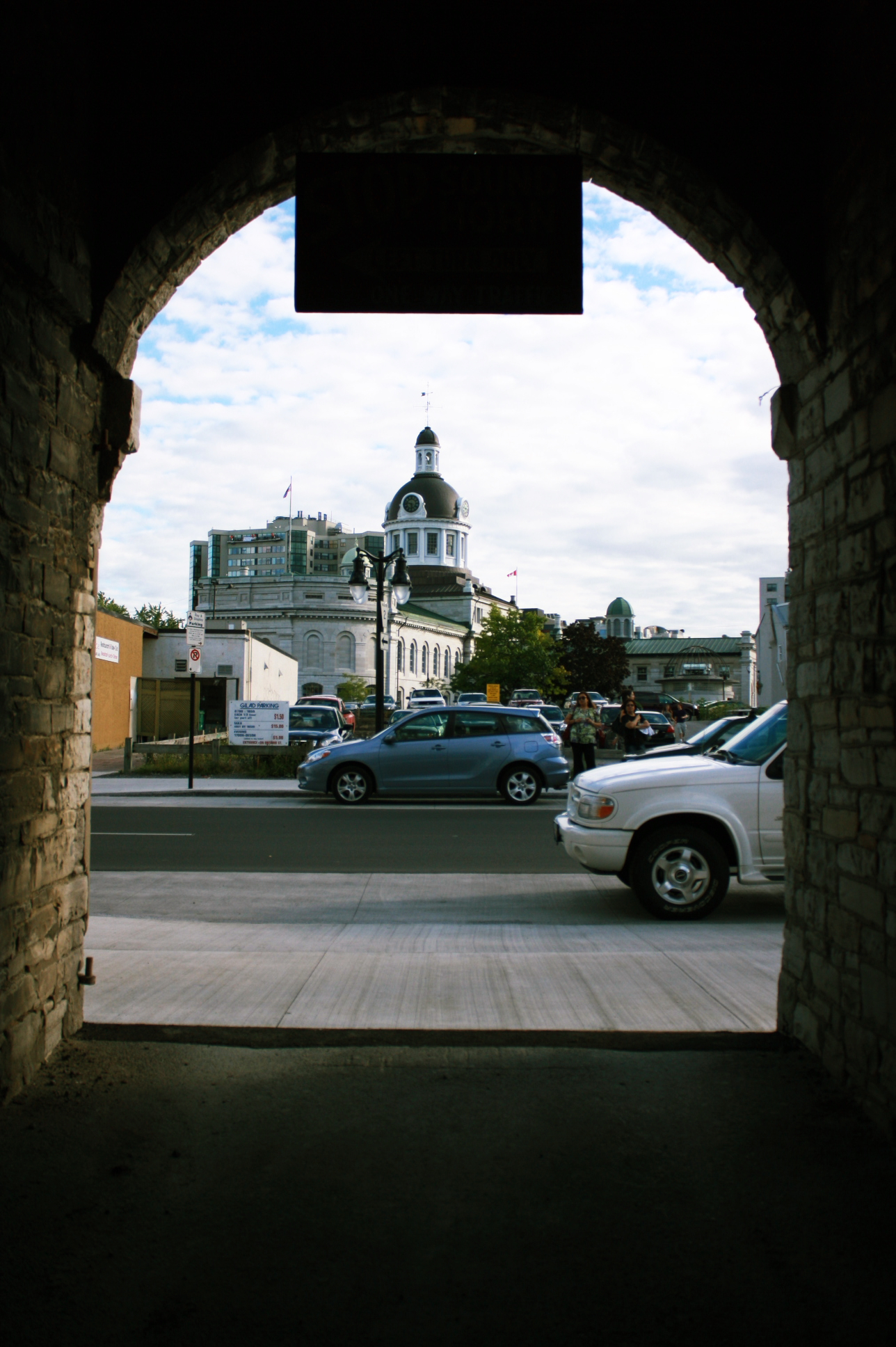 Princess Street looking from underground car park exit at Commercial Mart (Smith & Robinson) building, Princess & Ontario (Hwy 2) toward city hall.